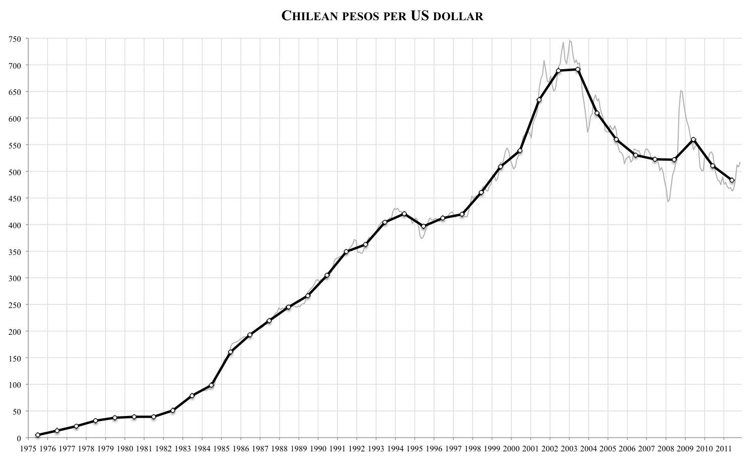 Chilean pesos per US dollar ("dólar observado"), yearly averages (1975-2011) and monthly variation from 1984 to 2011